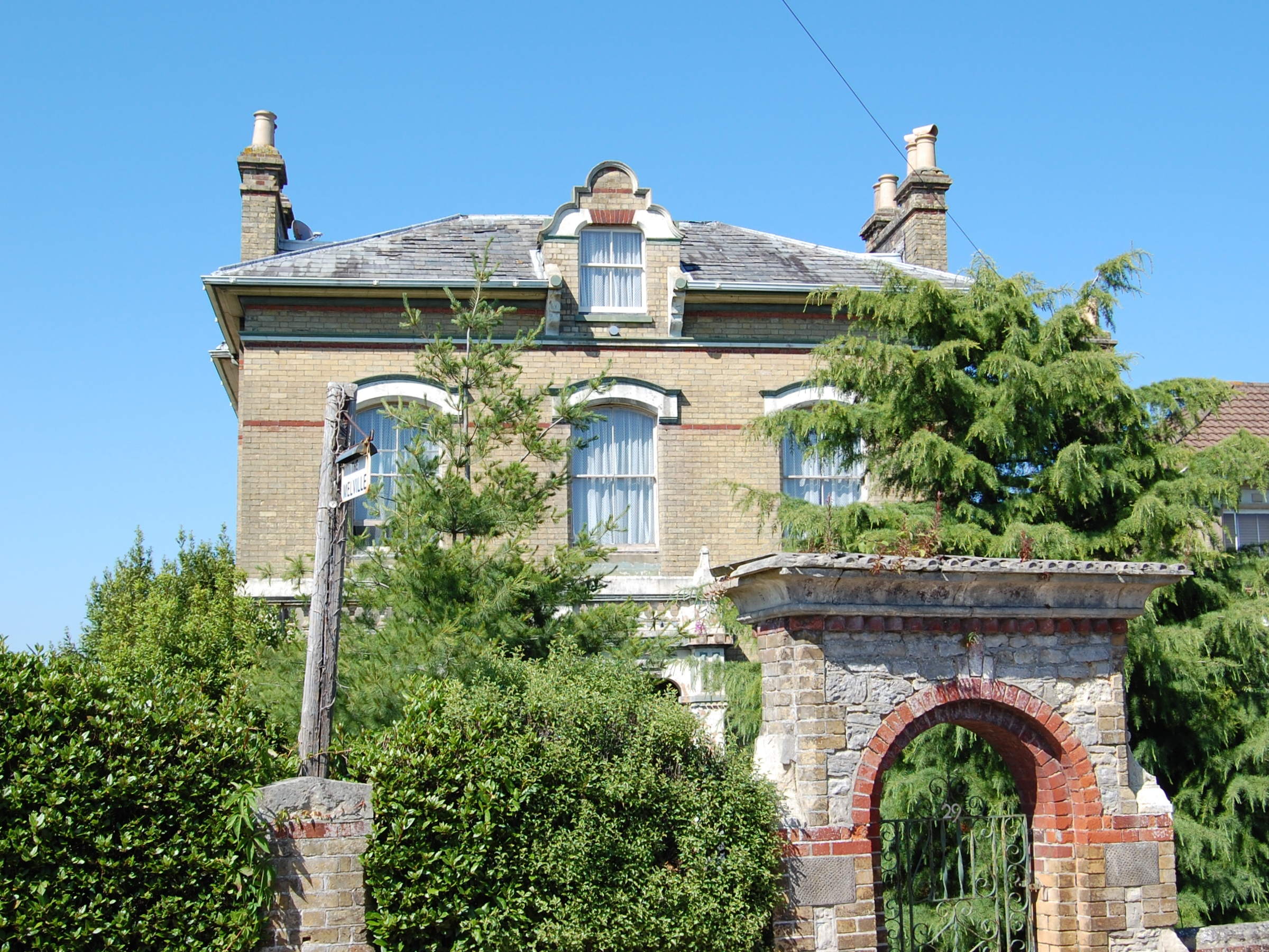 29 Melville Street, Ryde, Isle of Wight, England. Designed in 1855 by local architect Thomas Hellyer as his family home. Listed at Grade II by Historic England.